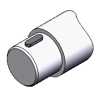 Part of a shaft with a mounted feather key. Own work, 1st March 2006, Borowski